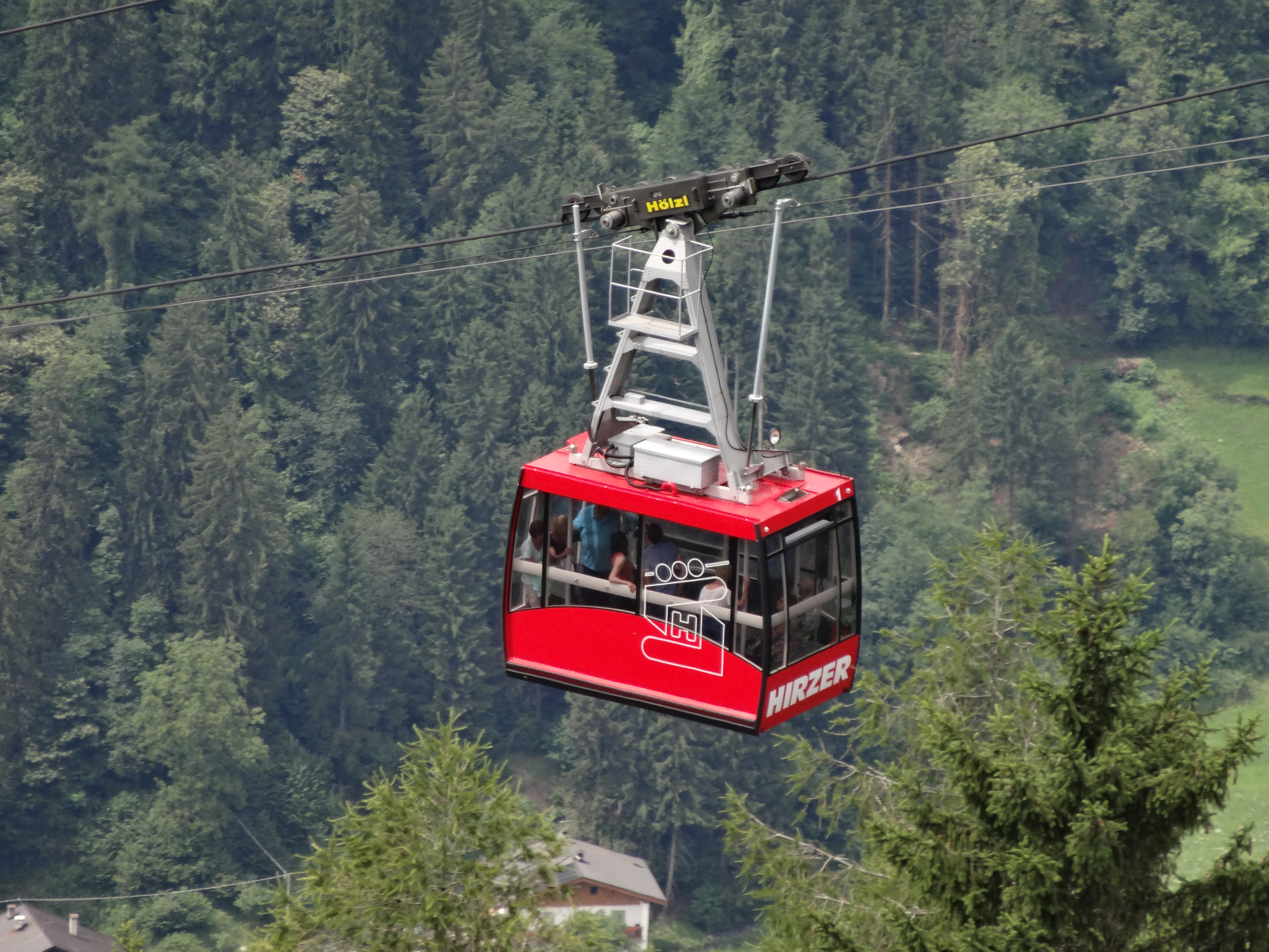 Cable car in Saltaus (Hirzerseilbahn), Italy